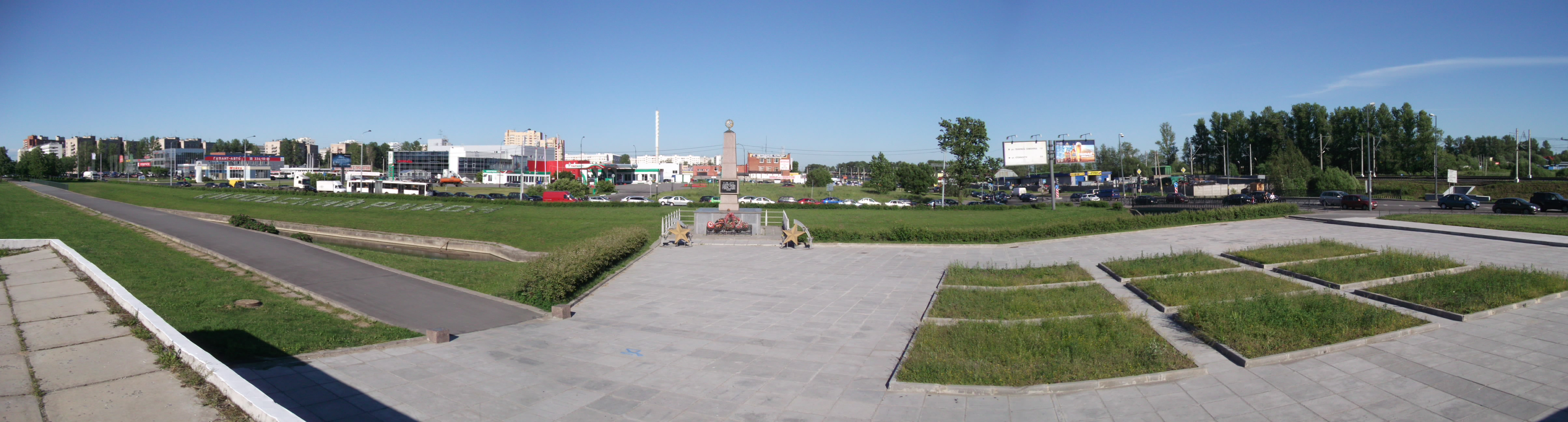 the entrance to the Kirovsky District